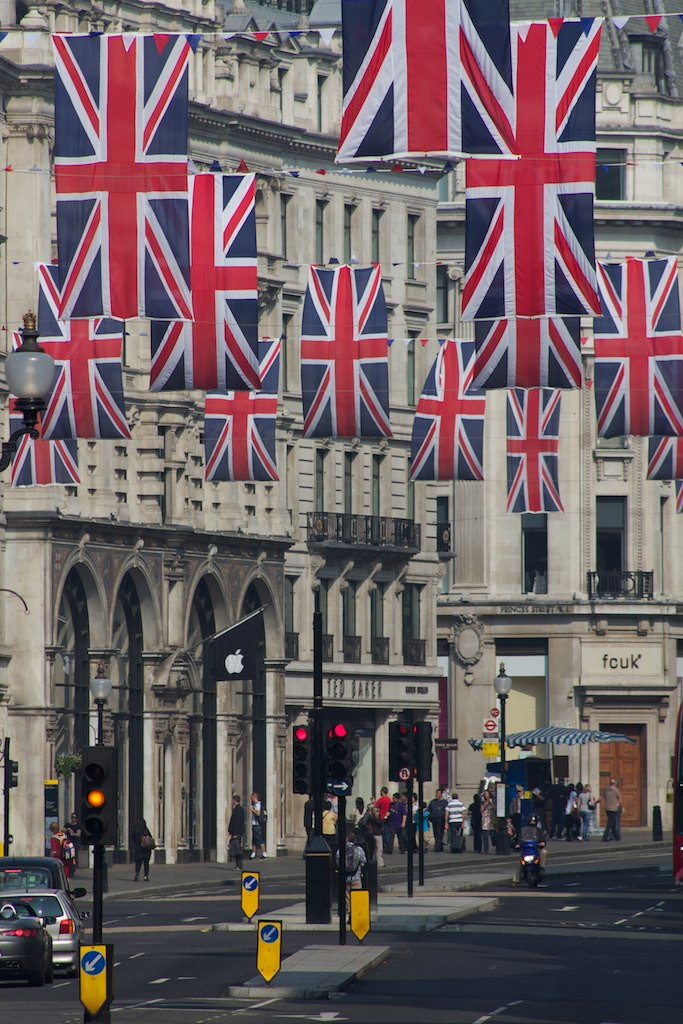 For the Royal Wedding April 2011, Regent Street was bedecked with Union Flags. This is the Apple Store reflected in the flag.